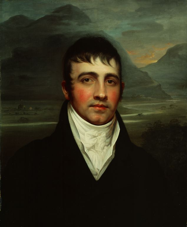 "Samuel Fisher Bradford," oil on canvas, by the American artist Rembrandt Peale. 27 in. x 22 in. Courtesy of the Art Institute of Chicago.